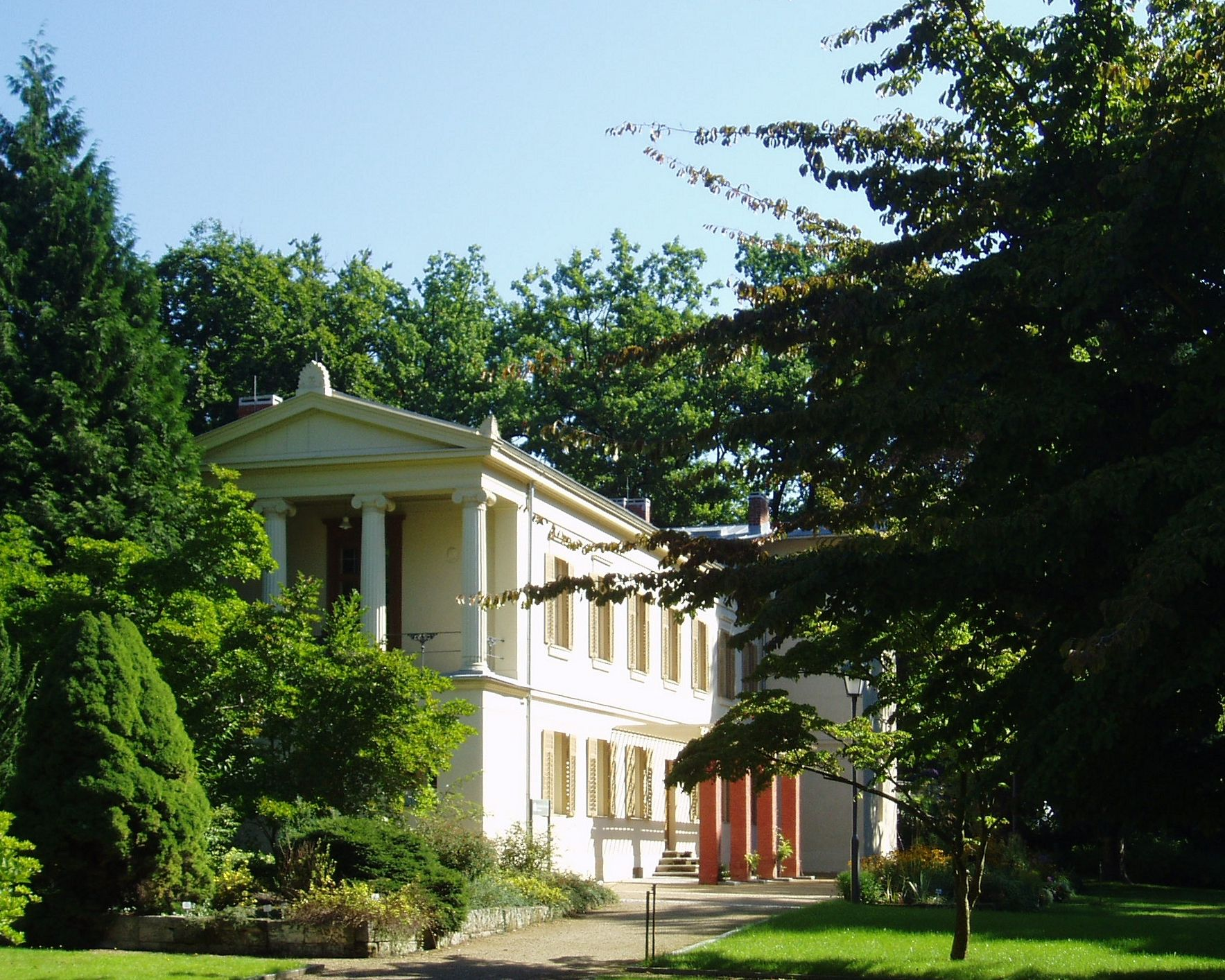 Botanical garden Potsdam, Germany, "Villa of widow Persius"